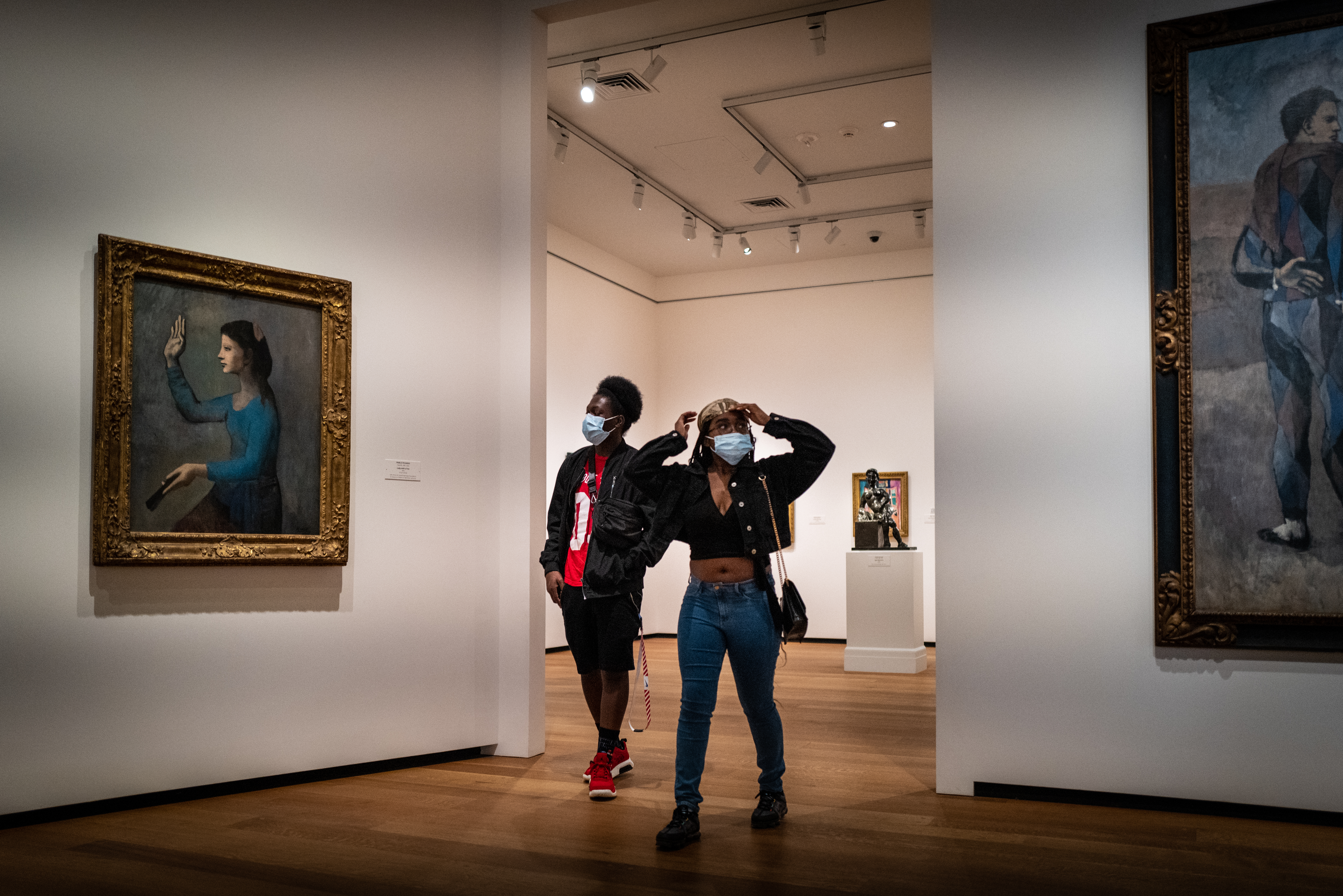 Photos from a walkabout of the National Gallery of Art on the day before the close for a month or so due to Coronavirus.